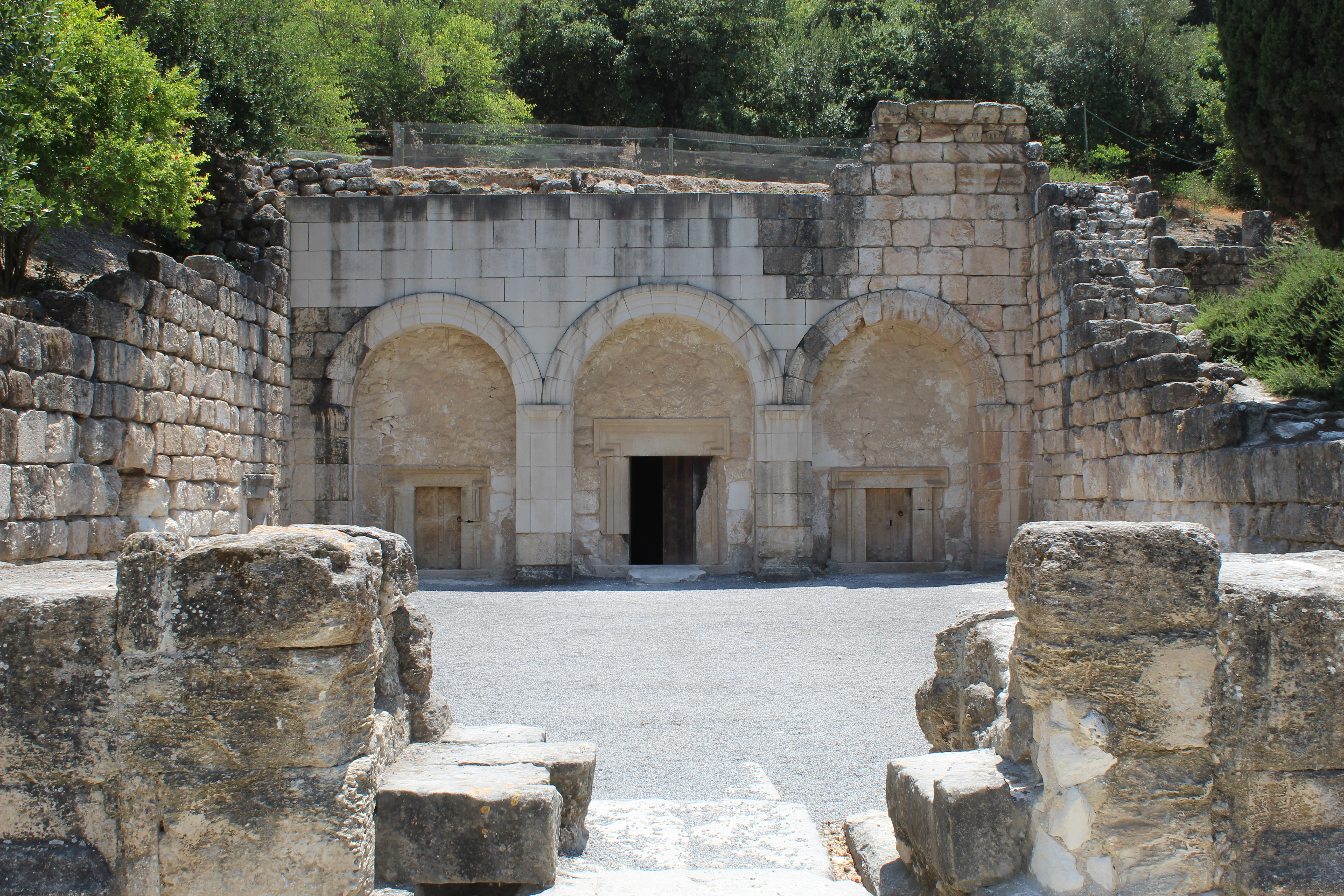 Burial cave at Beit Shearim, showing partially reconstructed walls